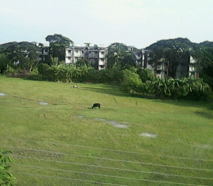 a hot or sunny day picture of field